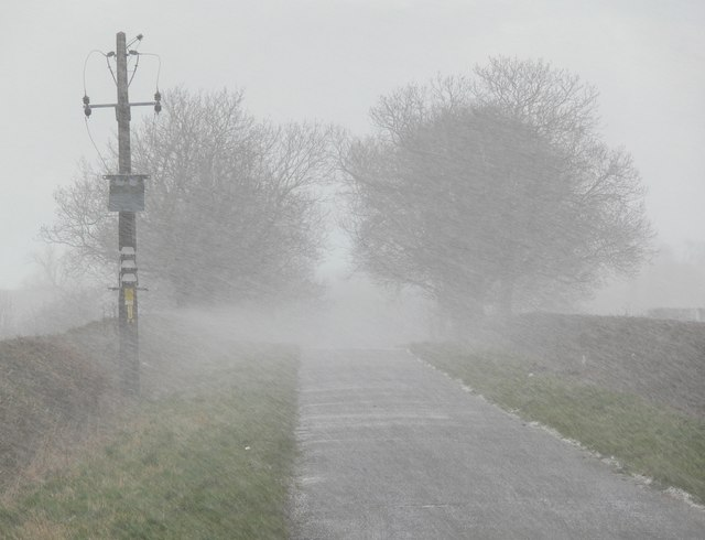 Hail storm along Fleckney Road